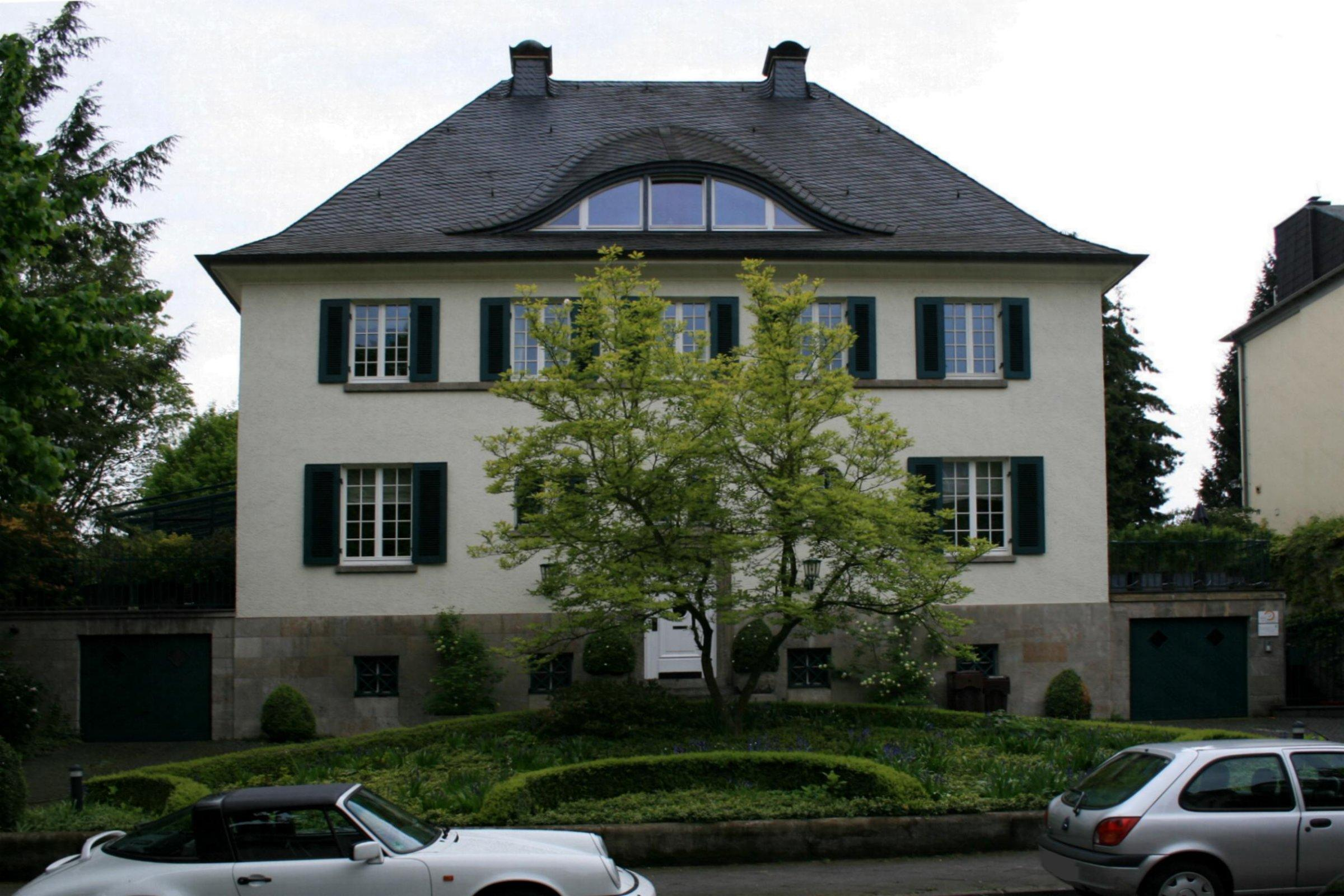 Cultural heritage monument No. M 044 in Mönchengladbach